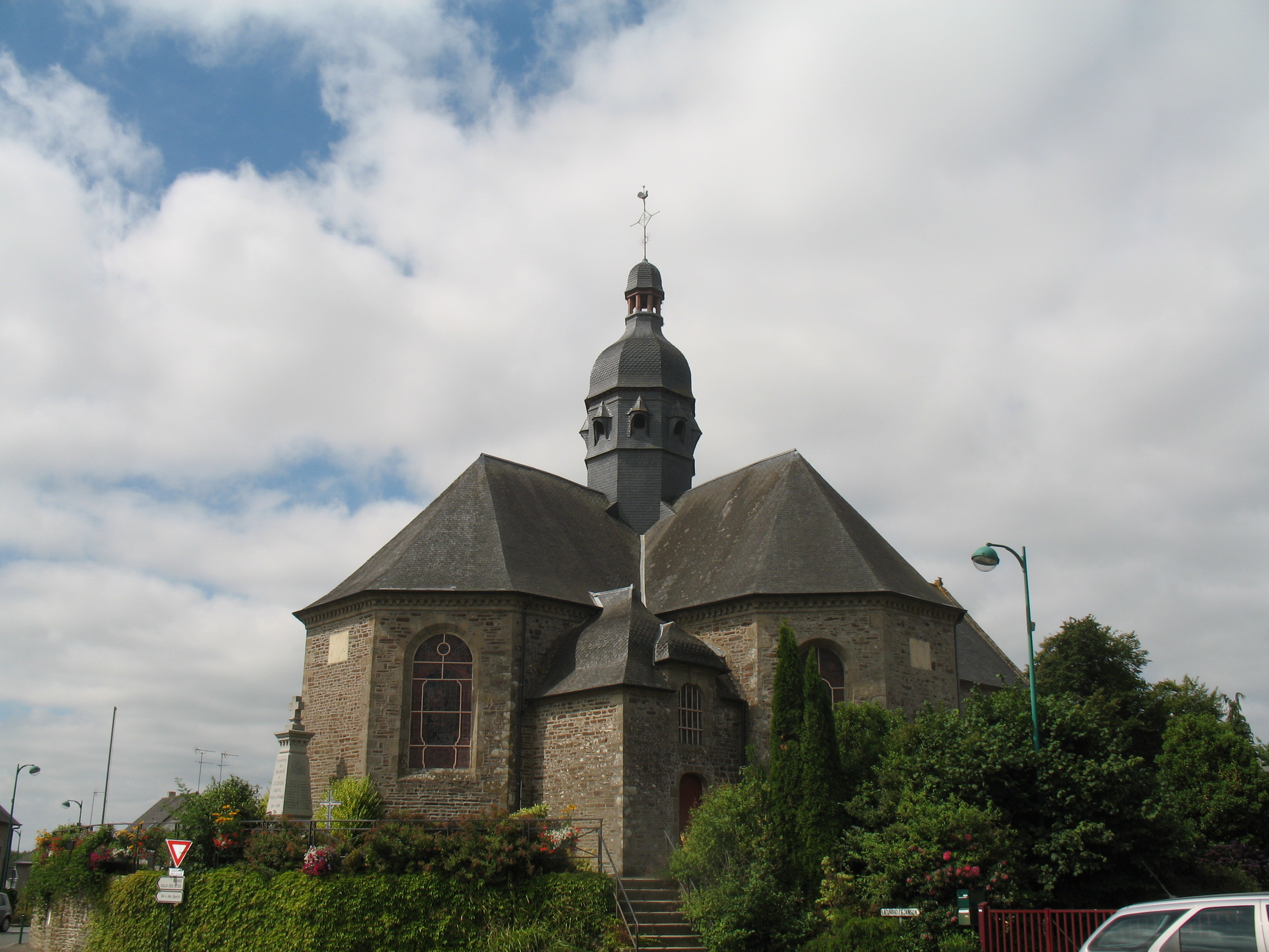 Church of Fleurigné.